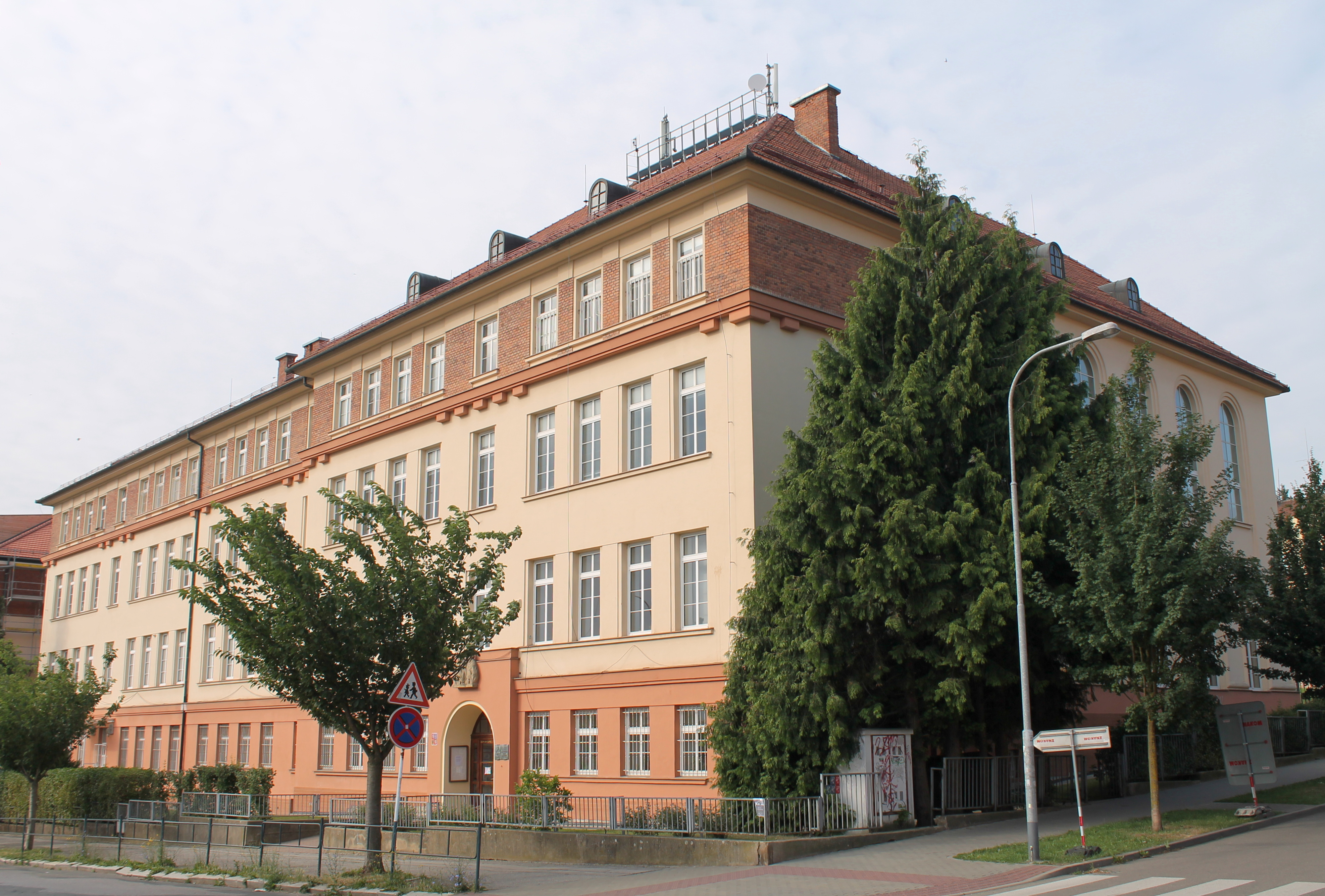 Cyrilometodějská církevní základní škola, Stránice, Brno, Czech Republic